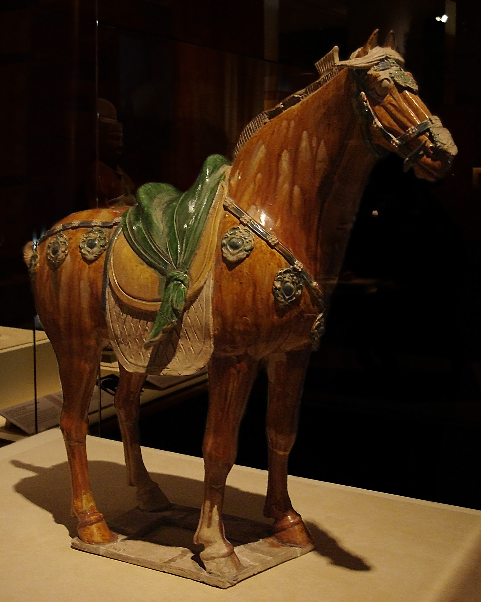 Tang Dynasty (A.D. 618 - 907) Excavated at Xi'an, Shaanxi Province, 1957 This yellow-glazed pottery horse includes a carefully sculpted saddle, which is decorated with leather straps and ornamental fastenings featuring eight-petalled flowers and apricot leaves.